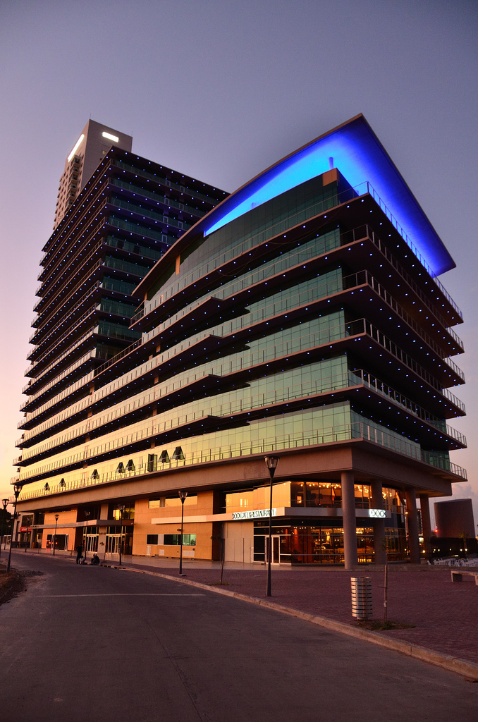 Nordlink Tower. Rosario, Argentina.